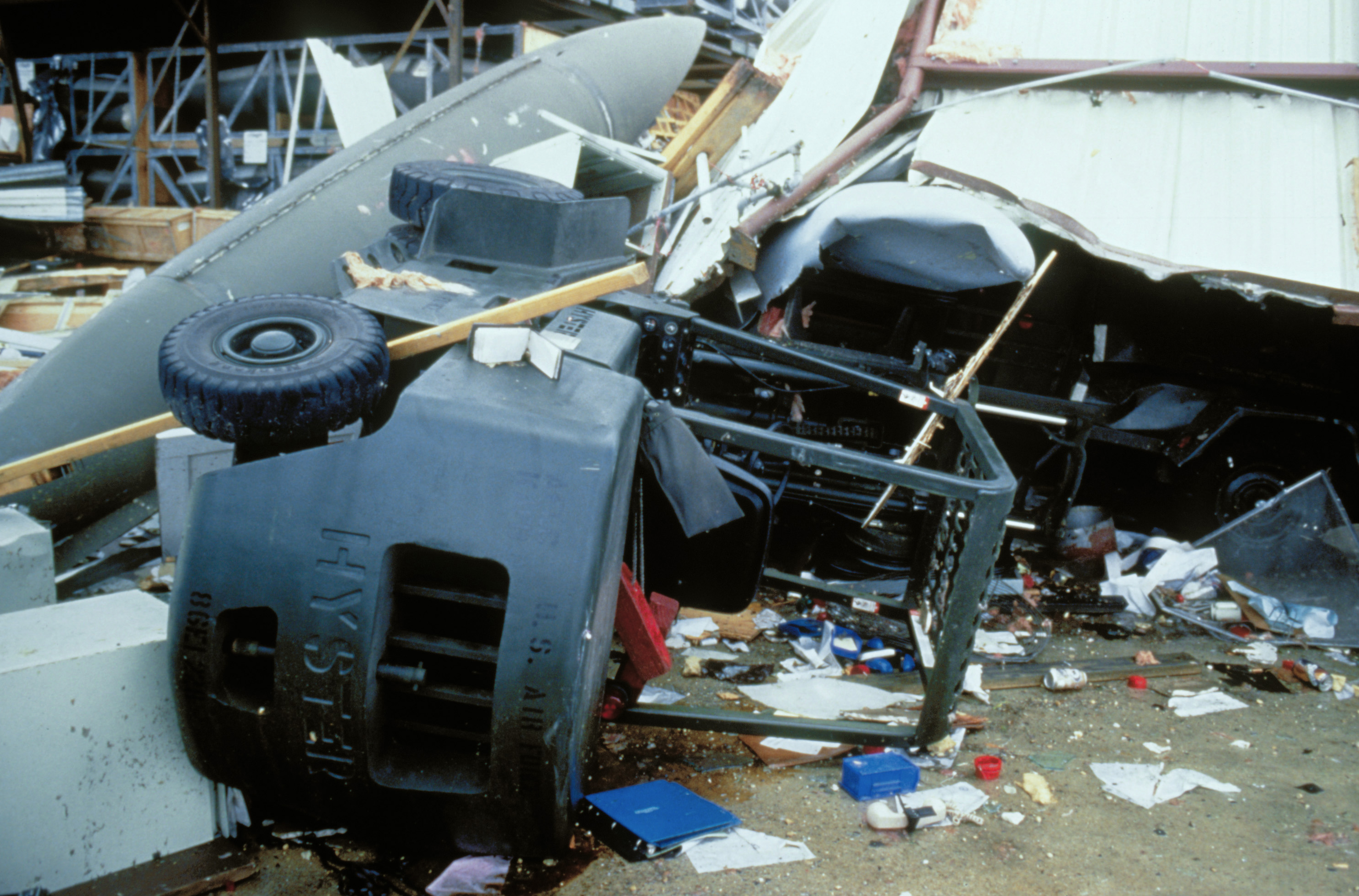 Damage inflicted when Hurricane Gilbert, known as the Storm of the Century, struck Kelly AFB, Texas.